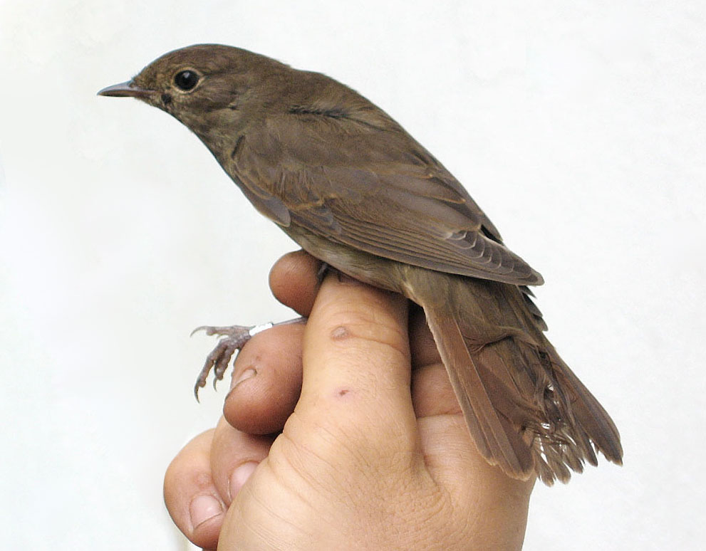 Thrush Nightingale (Luscinia luscinia) At a ringing camp near Izsák, Kiskunság National Park, Hungary, 20 August 2005